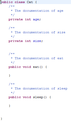 Screenshot of a Java file in the Open source IDE Eclipse